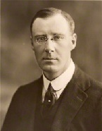 Ronald Gorell Barnes, 3rd Baron Gorell, by Bassano Ltd, 29 May 1920